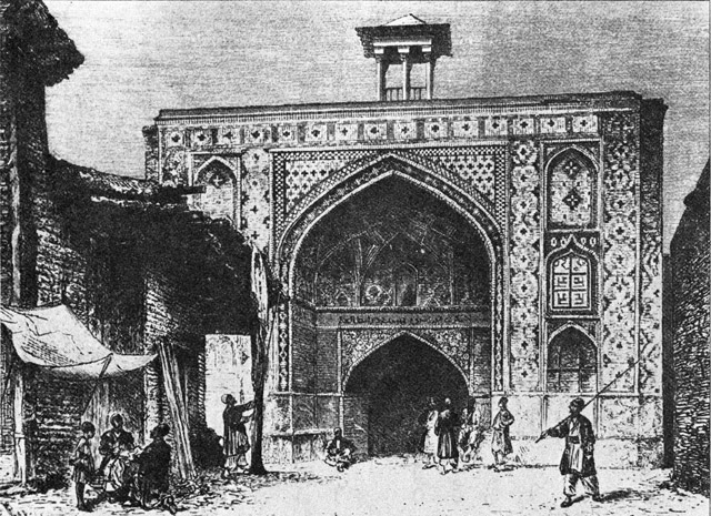 Sketch by French explorer Dieulafoy. Mid 1800s. Showing an Ab Anbar.